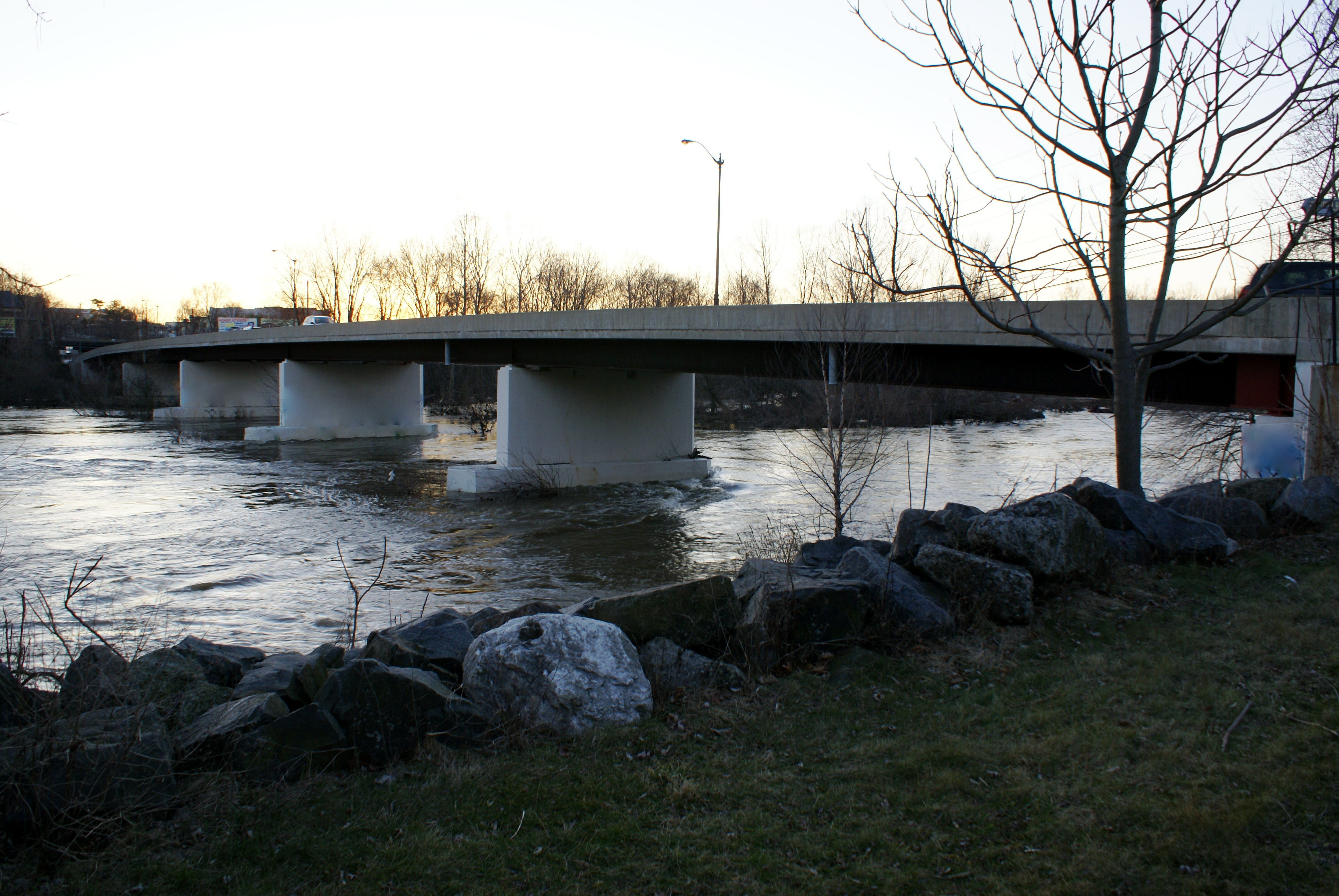 Mont Clare Bridge, looking West, with sun setting behind the bridge. Retouched to obscure graffiti on piers. Mont Clare, Pennsylvania